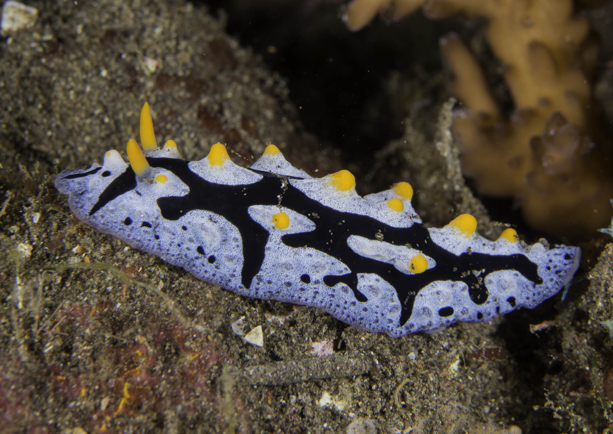 The nudibranch Phyllidia picta, Tulamben, Bali, Indonesia.